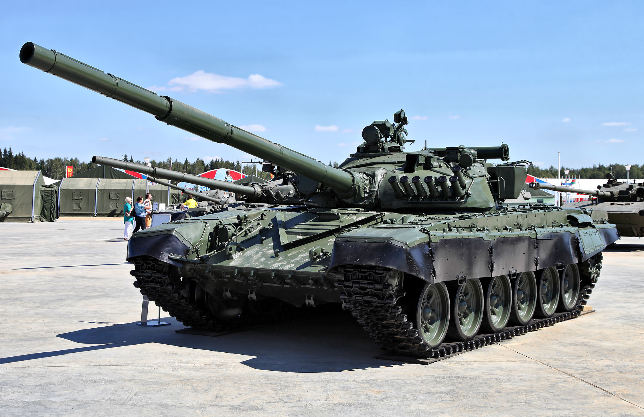 T-72A